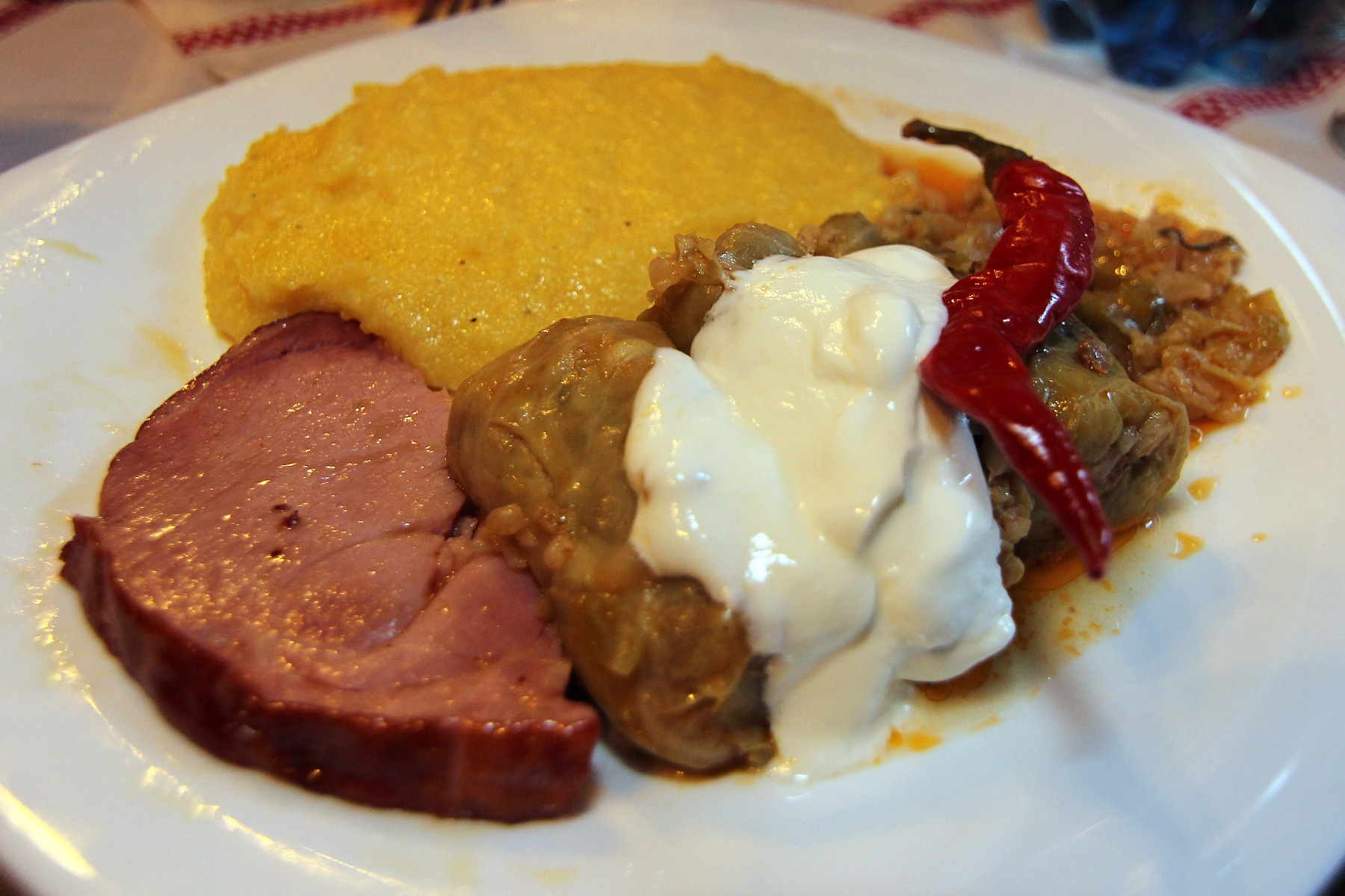 Traditional Romanian dish: sarmale with cream, mămăligă, smoked meat and hot peppers.